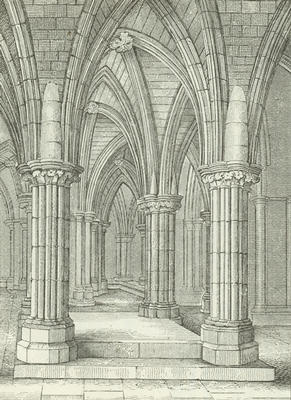 1872 illustration of Jocelin's Crypt in Glasgow Cathedral.